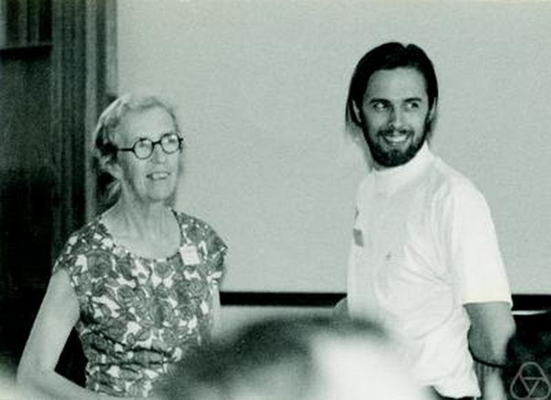 Mary Cartwright (left), Charles Pugh, Nizza 1970